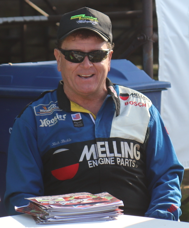 Rich Bickle at the 2019 ARCA Midwest Tour race at State Park Speedway.